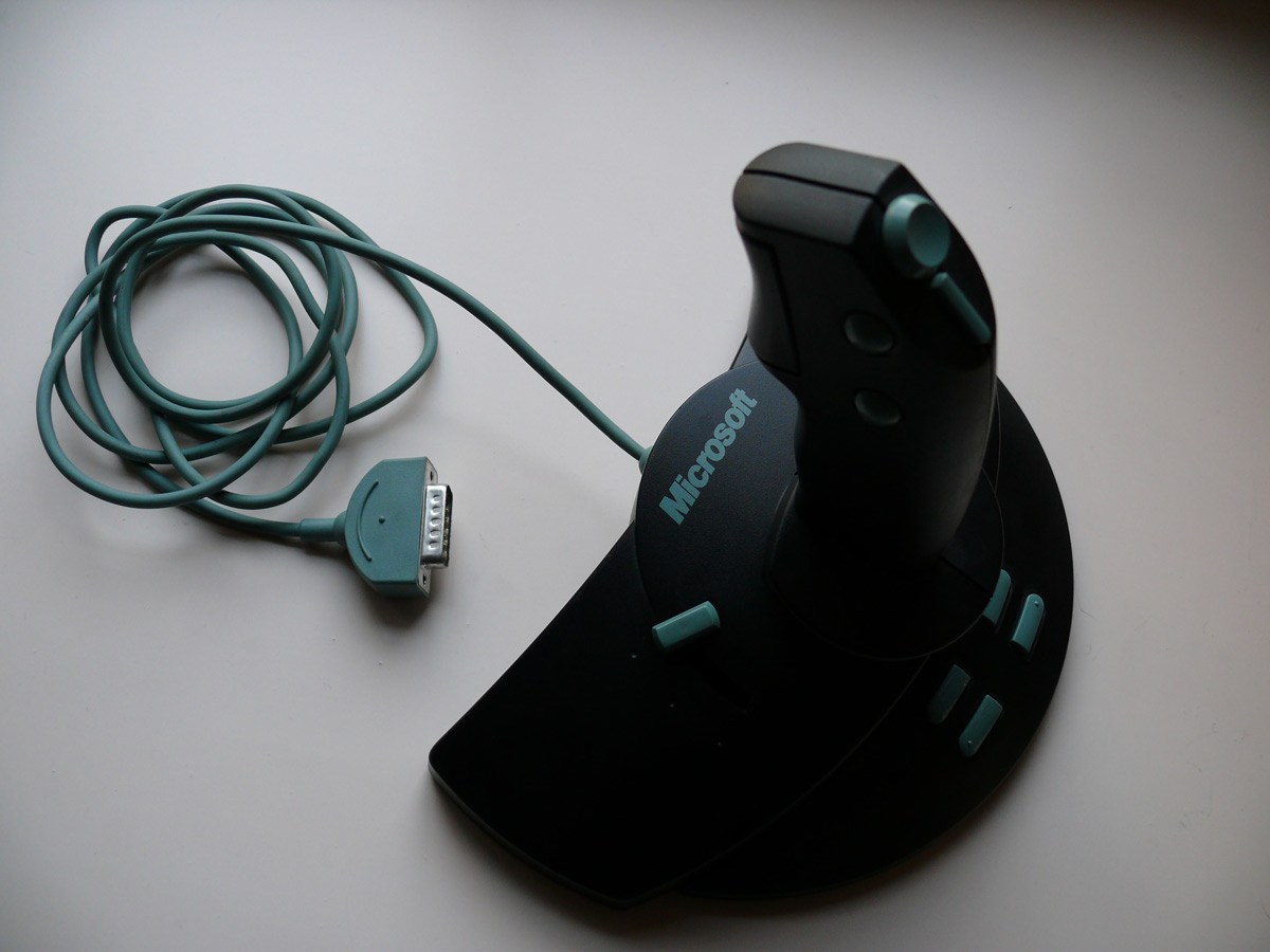 Picture from Microsofts SideWinder 3D Pro